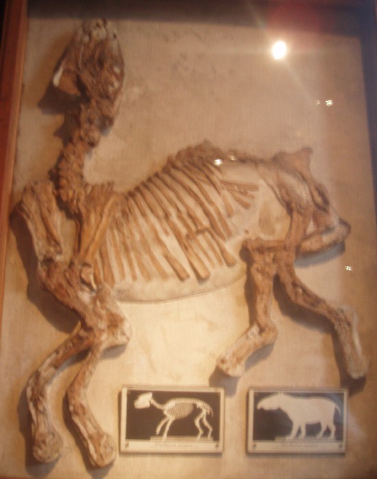 Palaeotherium.